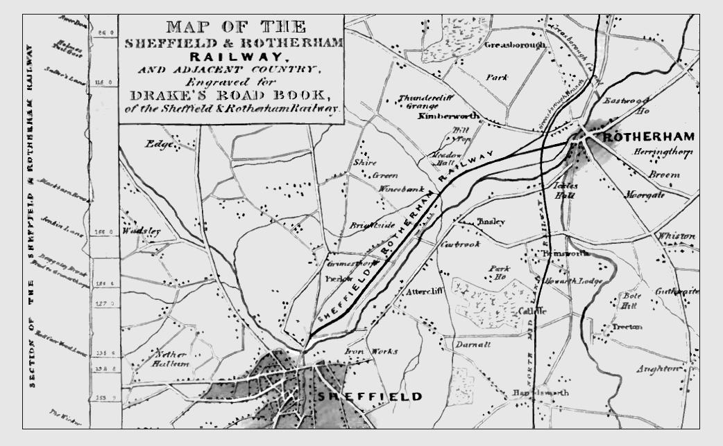 A map of the Sheffield and Rotherham Railway, published in 1840.